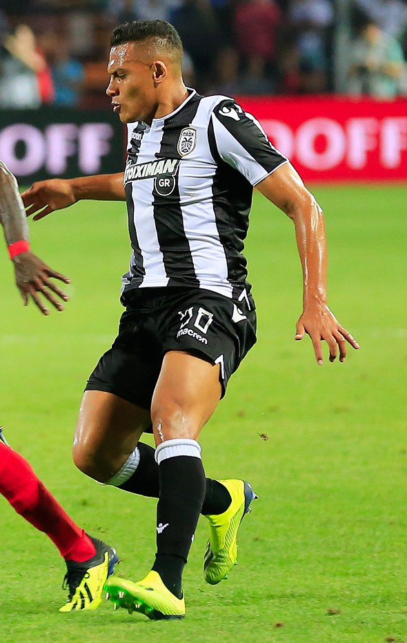 Léo Jabá